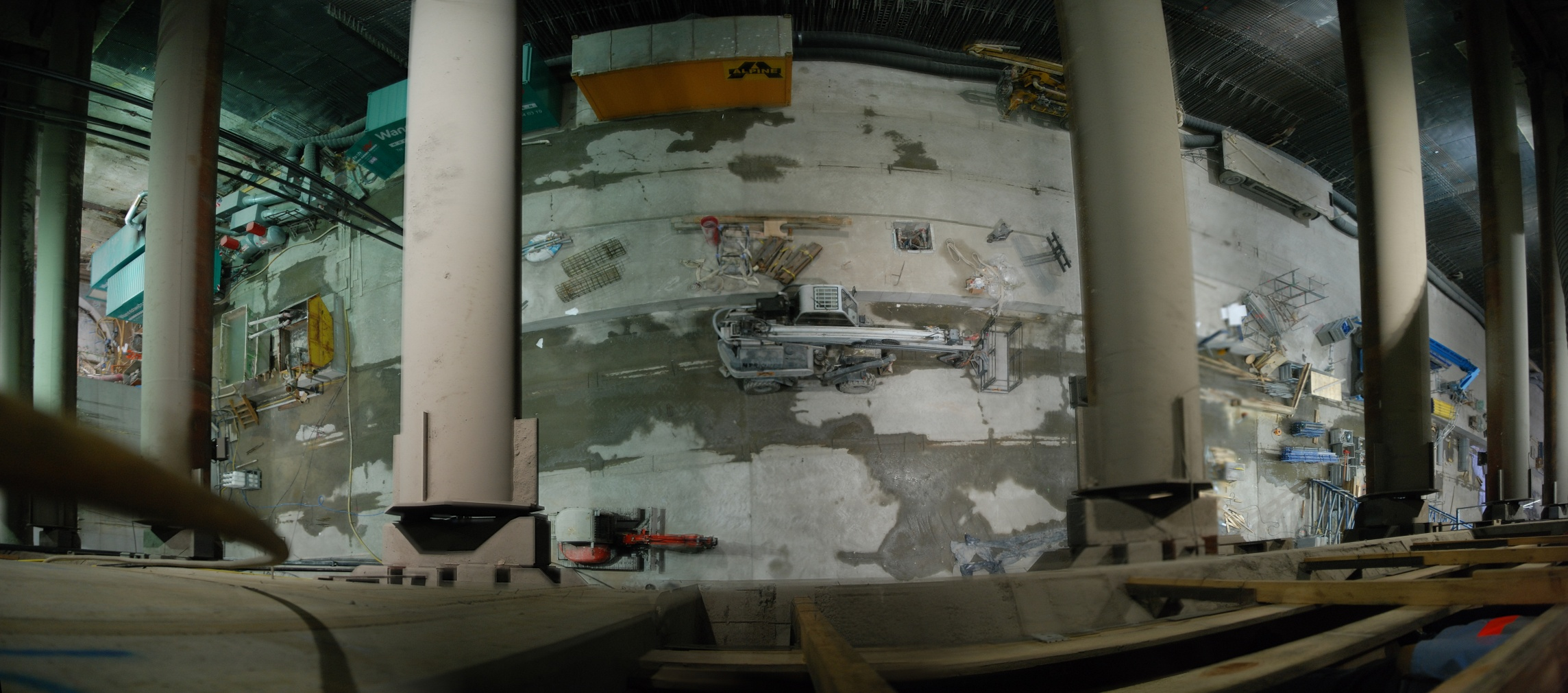 city tunnel Leipzig, station "Markt", top view